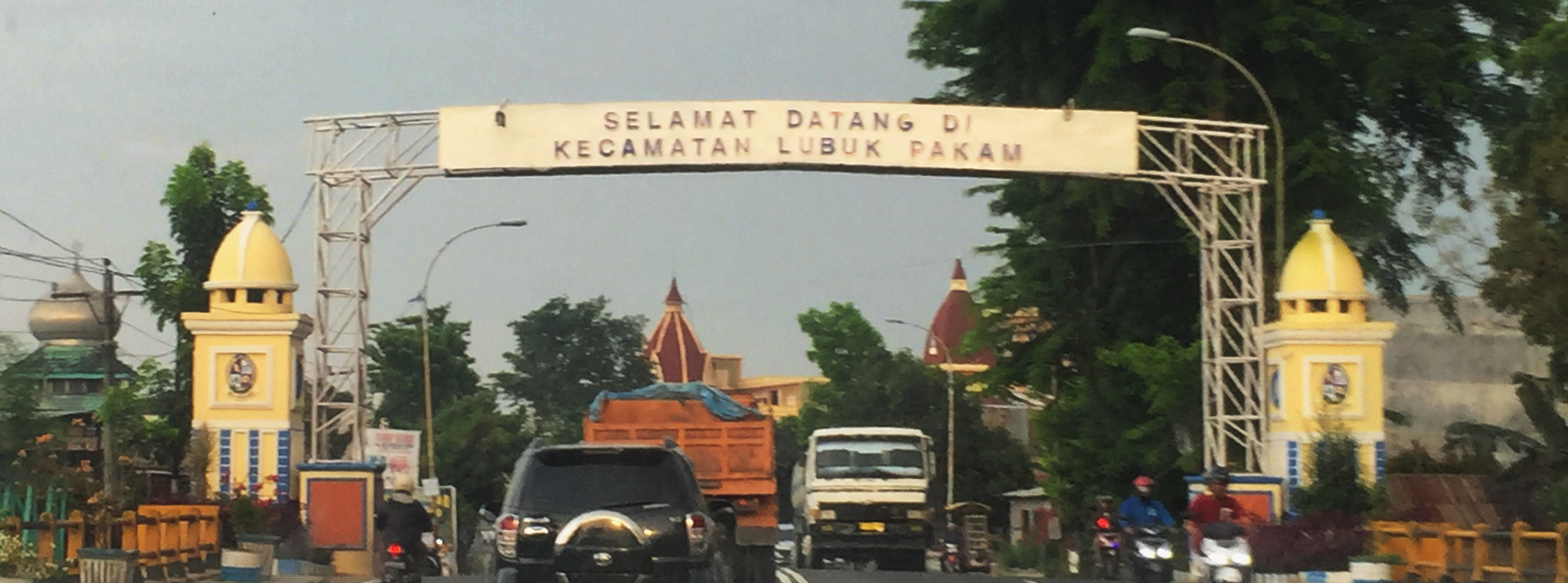 Welcome gate to Lubuk Pakam, Deli Serdang